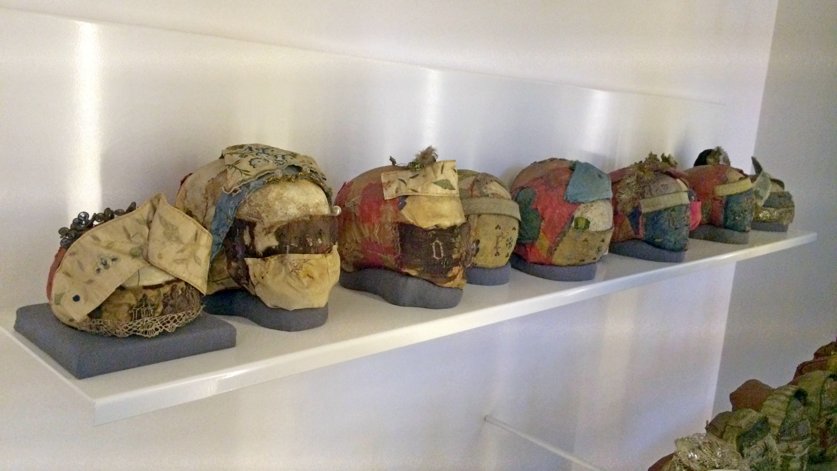 Saint Quentin cathedral in Hasselt, Belgium. Human skulls in the relics cabinet.